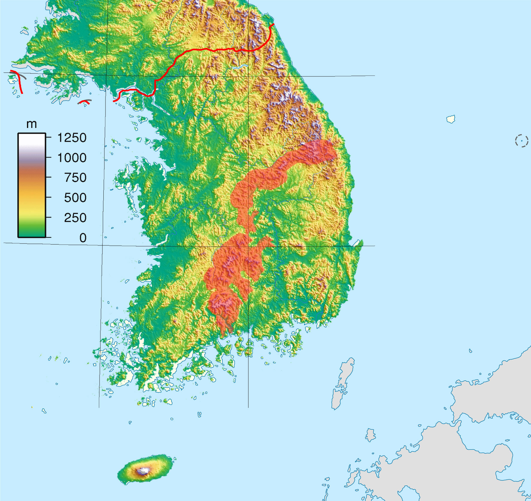 Topography map version designed to be used as an alternative map to South Korea location map.svg with the Sobaek Mountains region marked in red